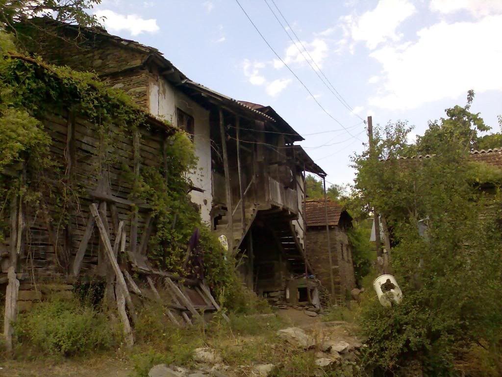 Village of Upper and Lower Zrkle, Poreche region, Republic of Macedonia